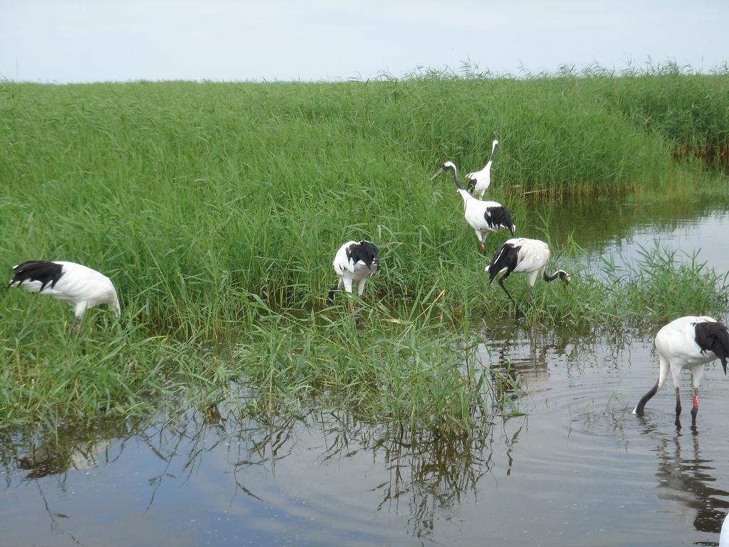 Red-crowned Cranes (Grus japonensis) at the Zhalong Wetland